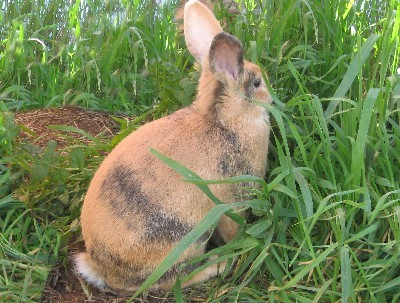 "Montana" brindle Elfin doe.